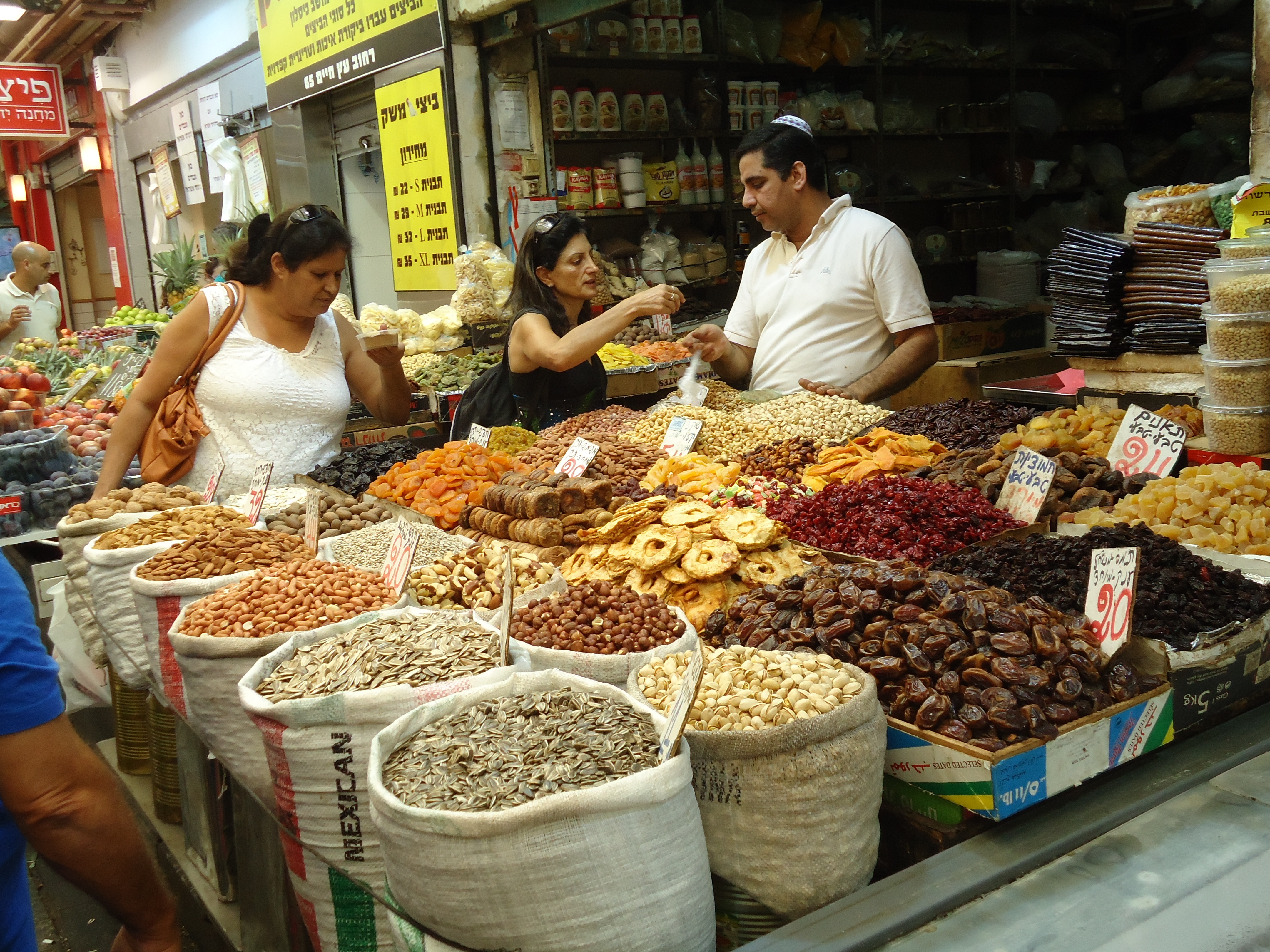 Mahane Yehuda Market Jerusalem